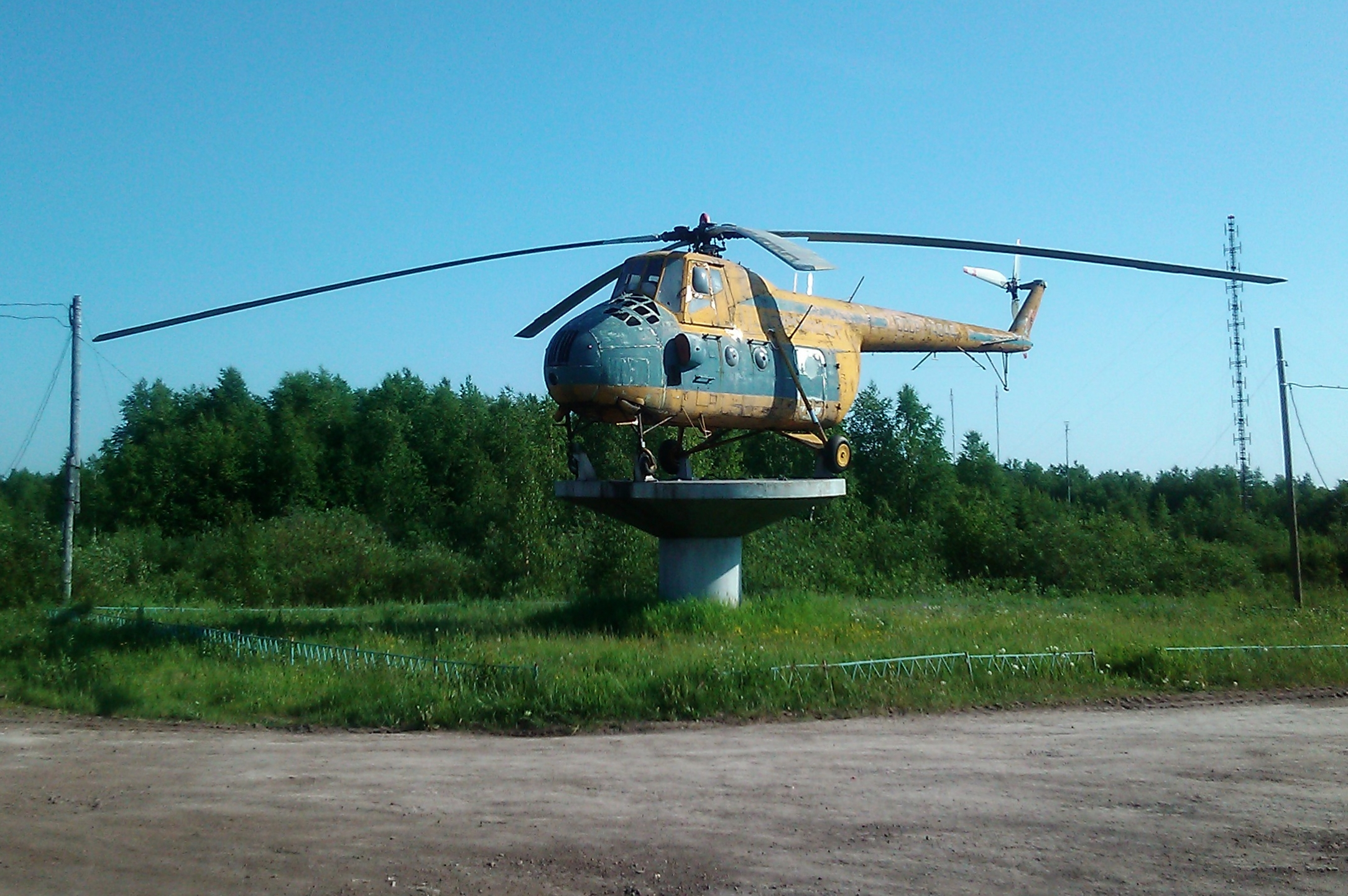 Mi-4 on a pedestal in Inta.